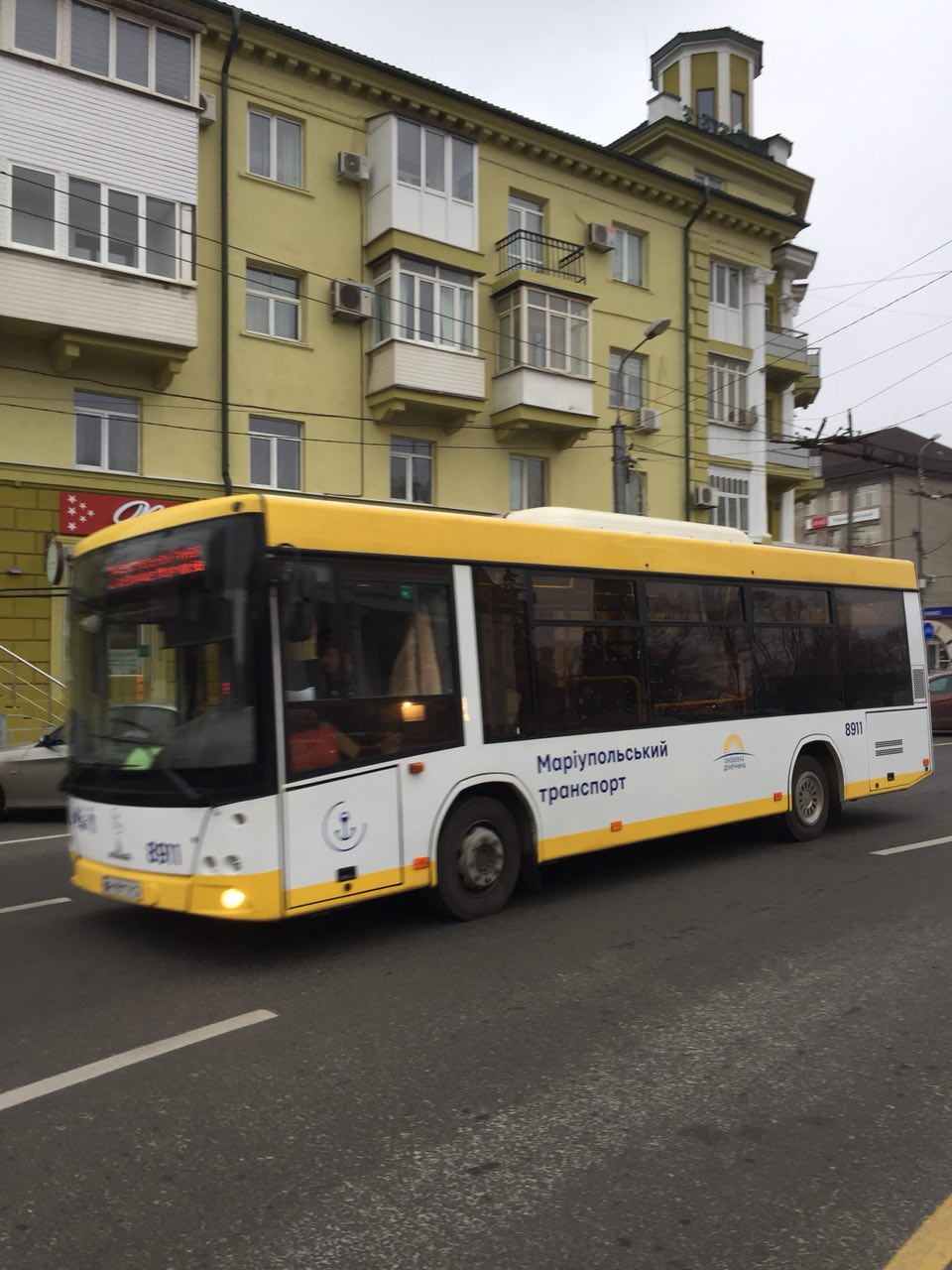 Bus in the Mariupol